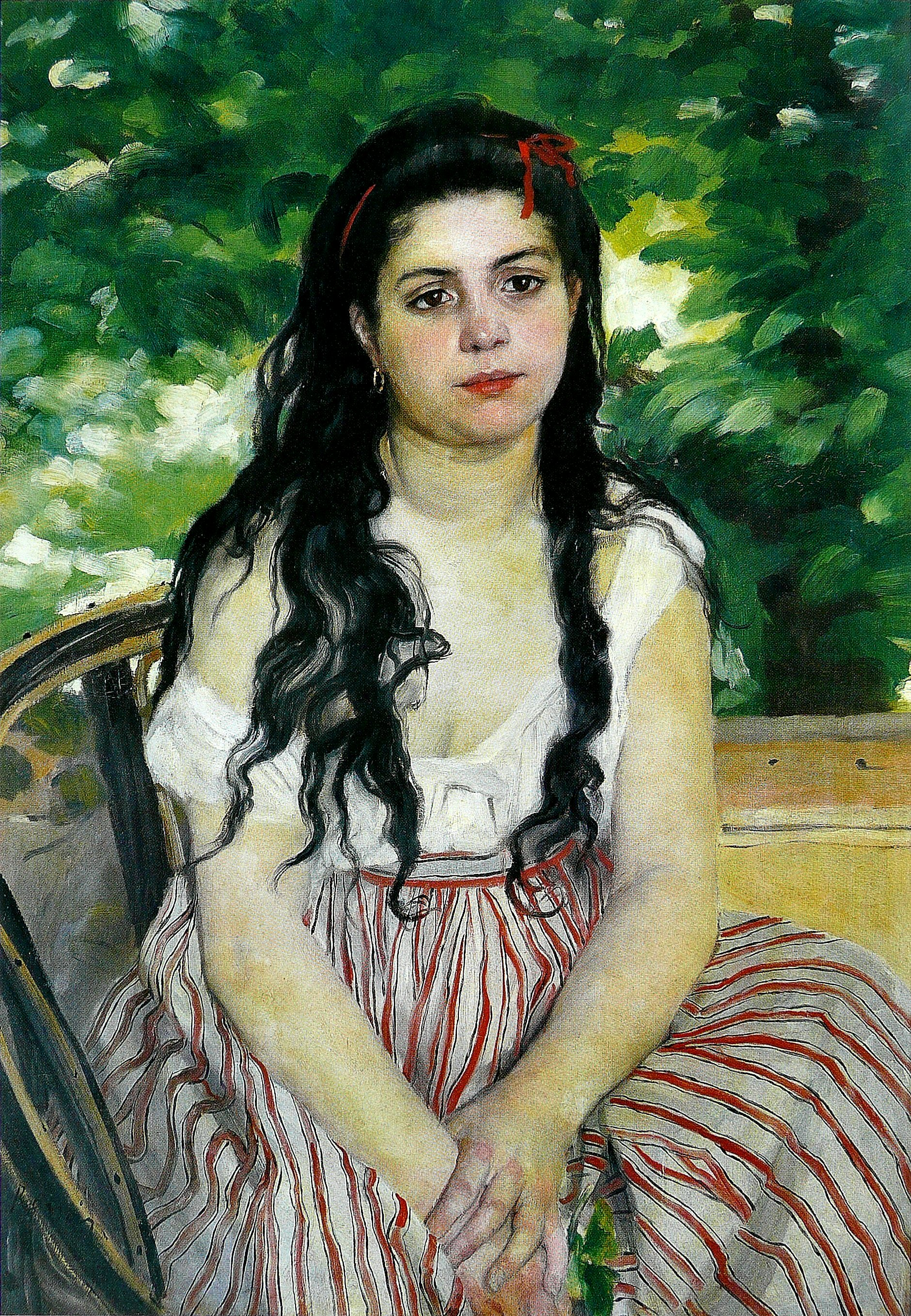 portrait of Lise Tréhot, aged about 20.